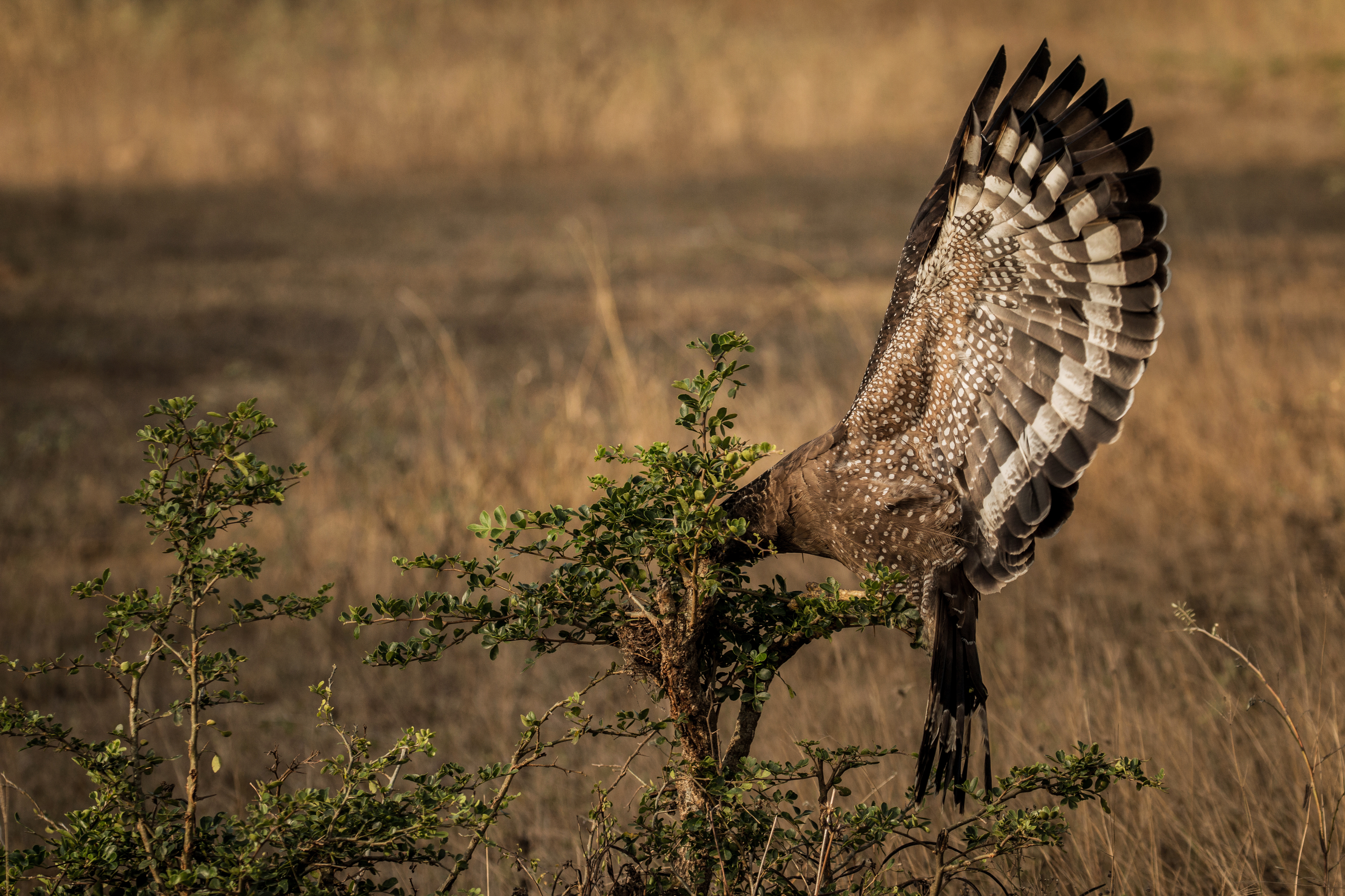 Crested serpent eagle (Spilornis cheela) at Yala National Park - Sri Lanka.